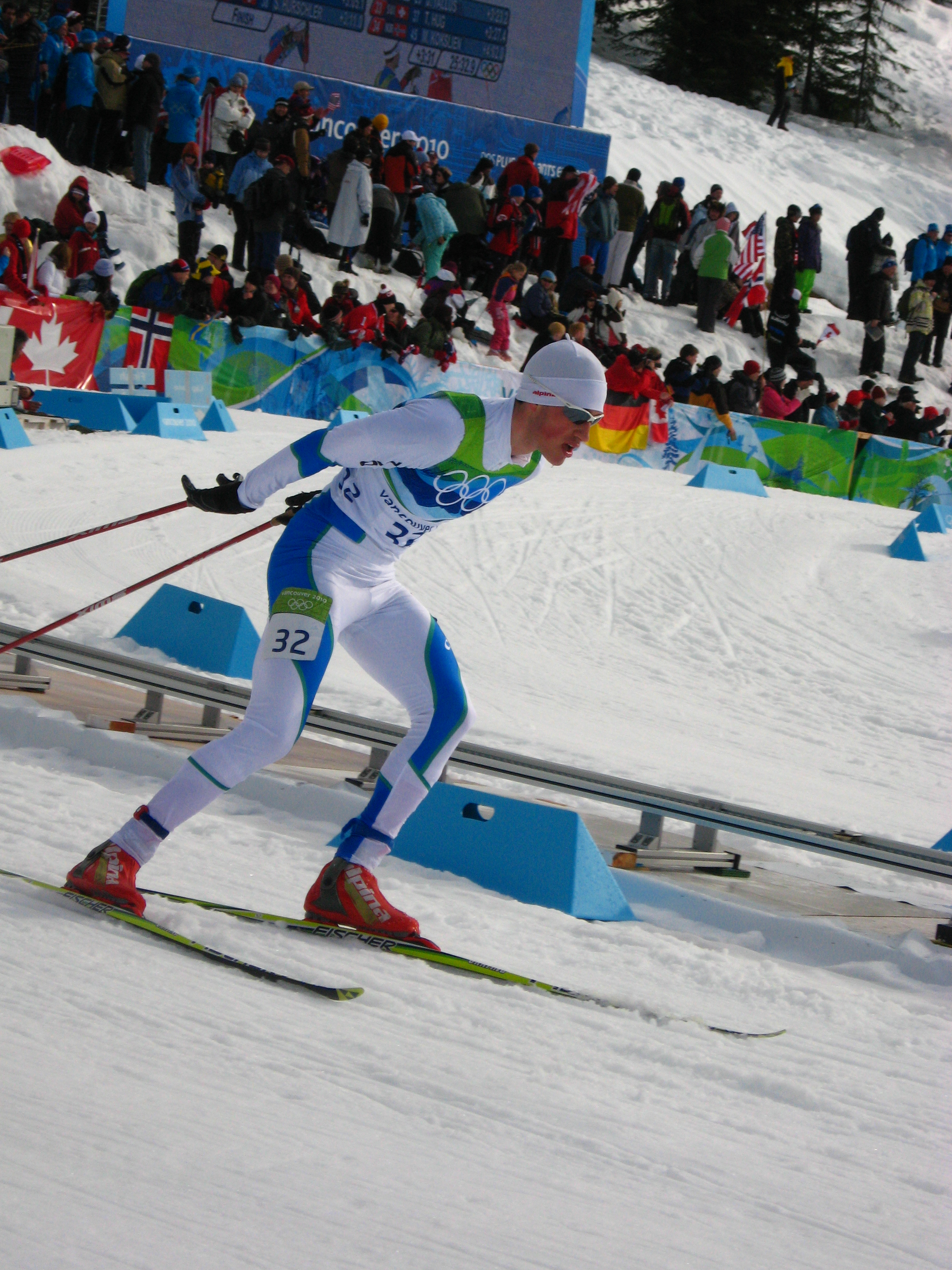 Slovenian nordic combined skier Gašper Berlot at the 2010 Winter Olympics during second part of the Individual large hill/10 km event.